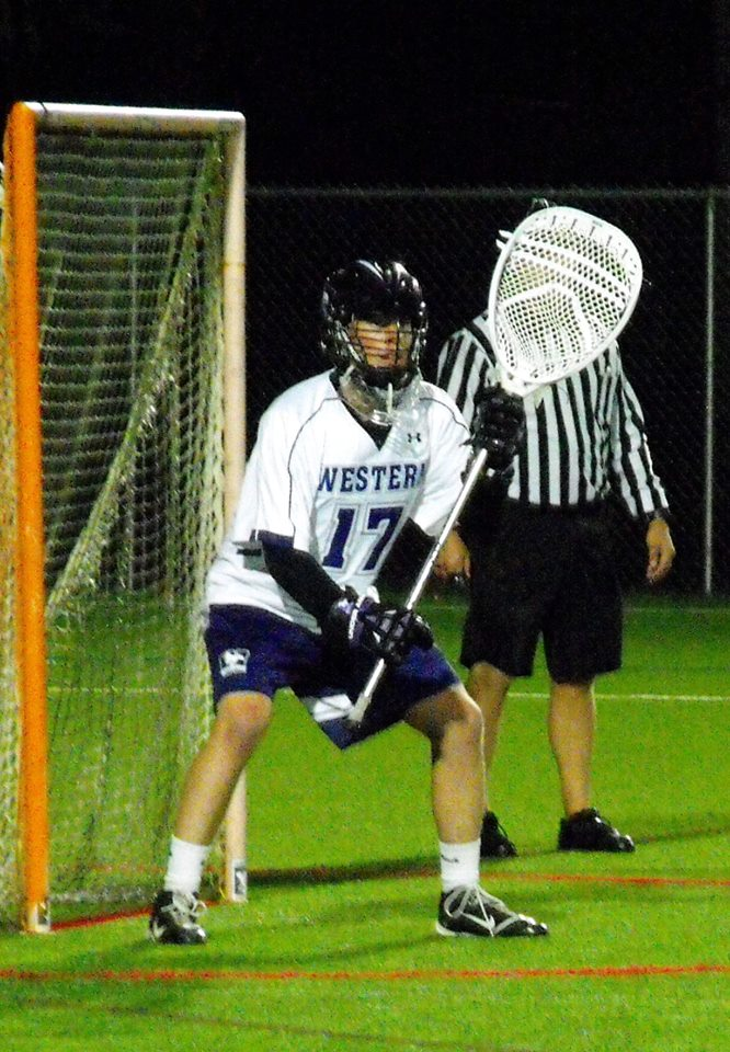 These are images of CUFLA action during the 2014 season and are taken by Devan Mighton.